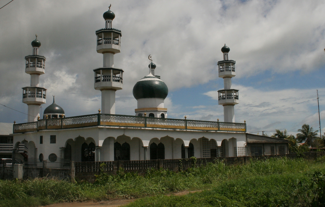 On the road to Nieuw Nickerie and Bigi Pan Nature Reserve via Oost-West verbinding, Suriname. Wageningen.